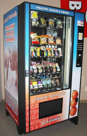 YoZone Vending machine